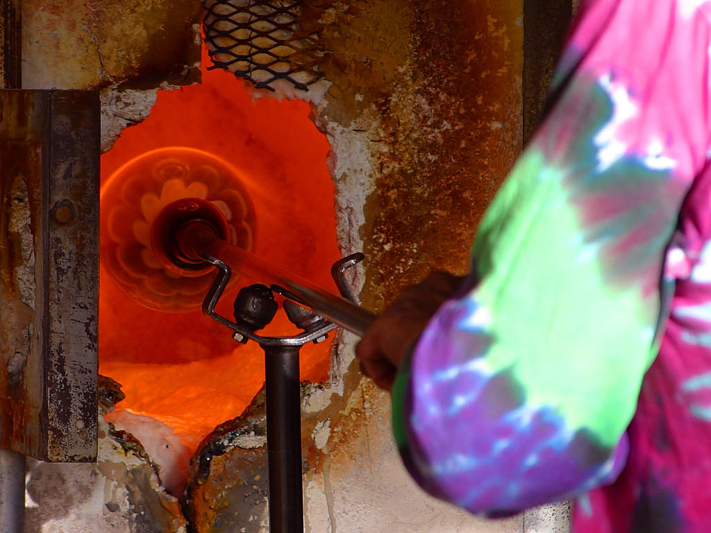 A glass blower heating an item during creation. Shows the blowpipe and "Glory Hole".